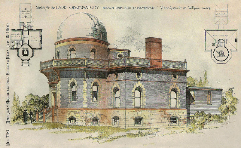 Sketch for the Ladd Observatory: Brown University, Providence. Stone, Carpenter & Willson.